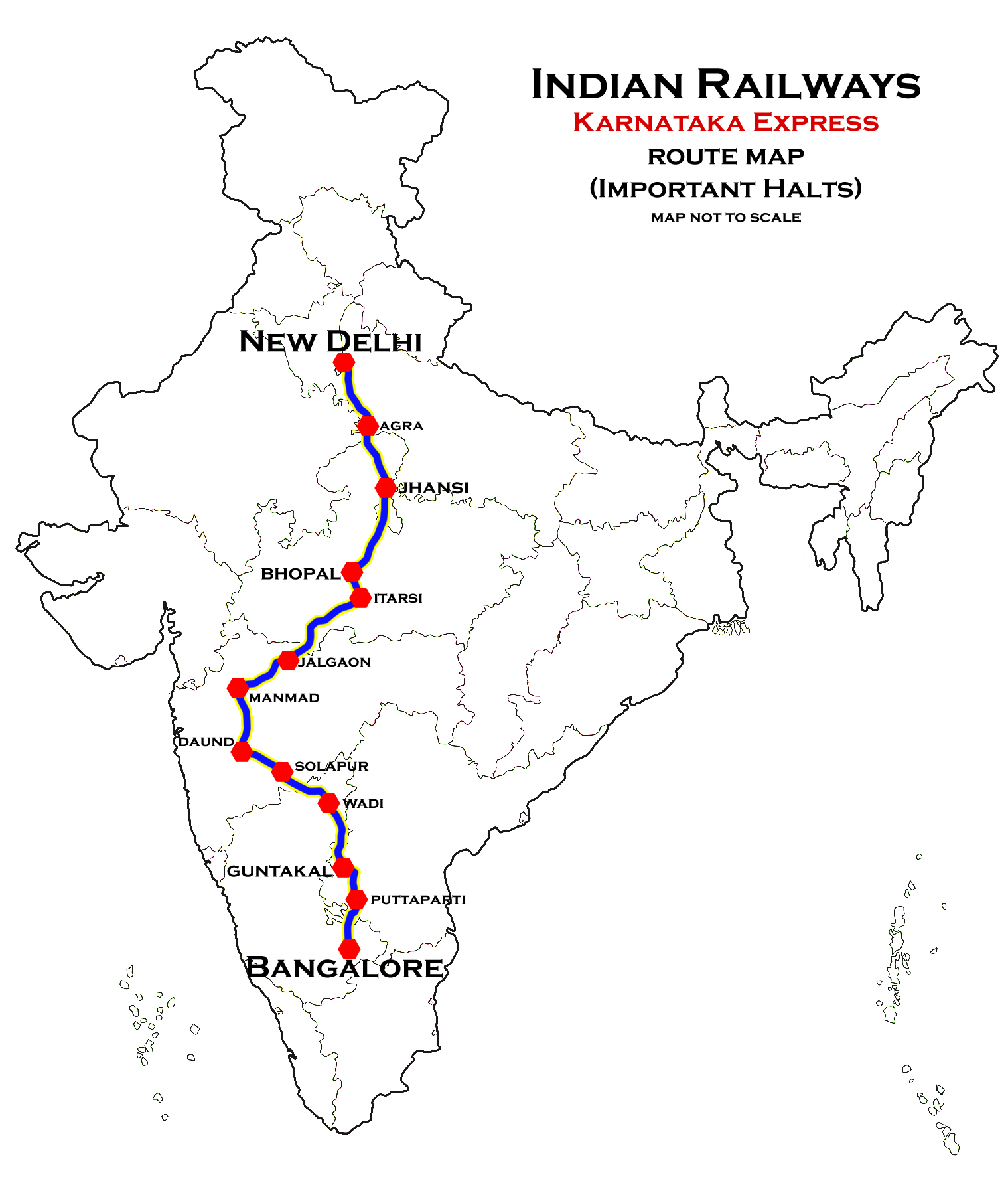 Karnataka Express (SBC - NDLS) Route map